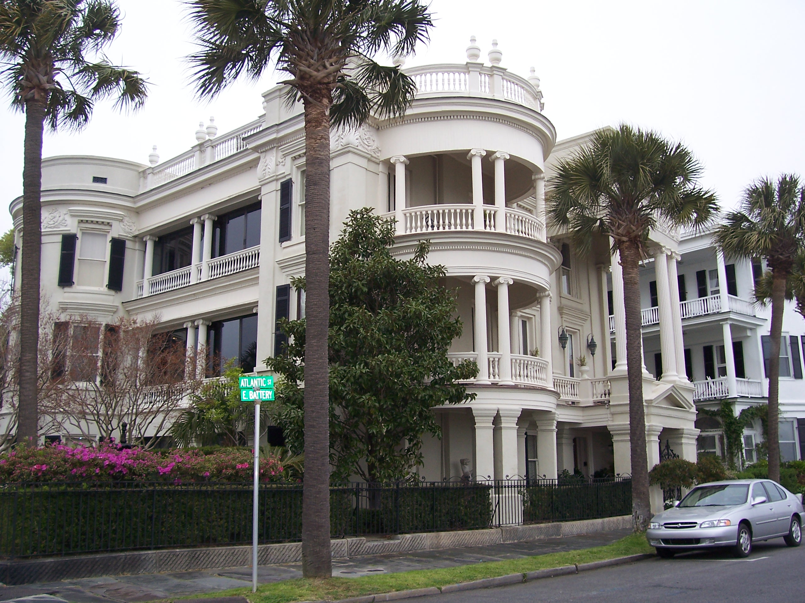 Copyright held by Evan Schmidt Wikipedia User:EvanS Updated by --EvanS 17:20, 20 July 2007 (UTC)